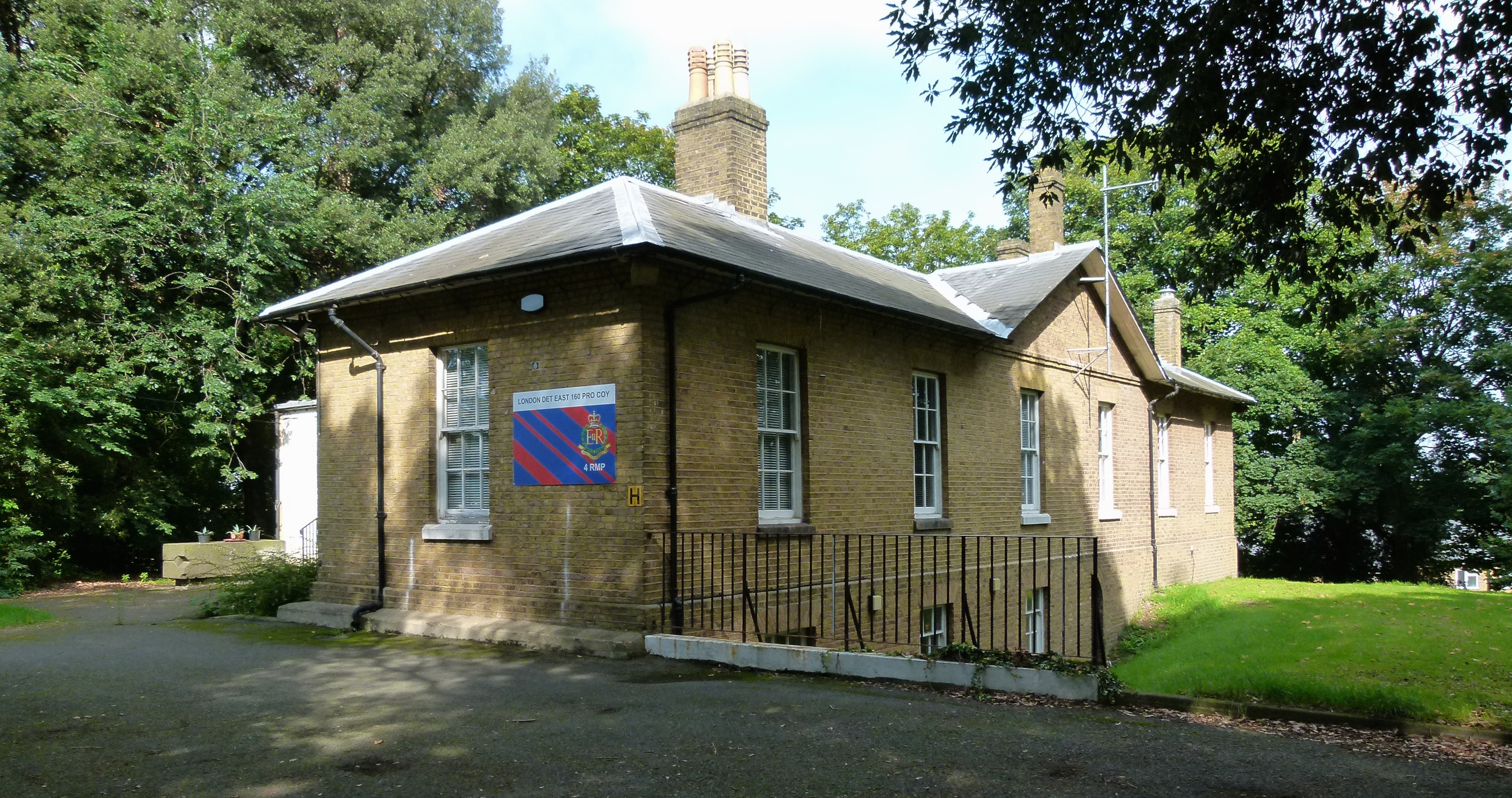 Green Hill Barracks, Woolwich, South East London.